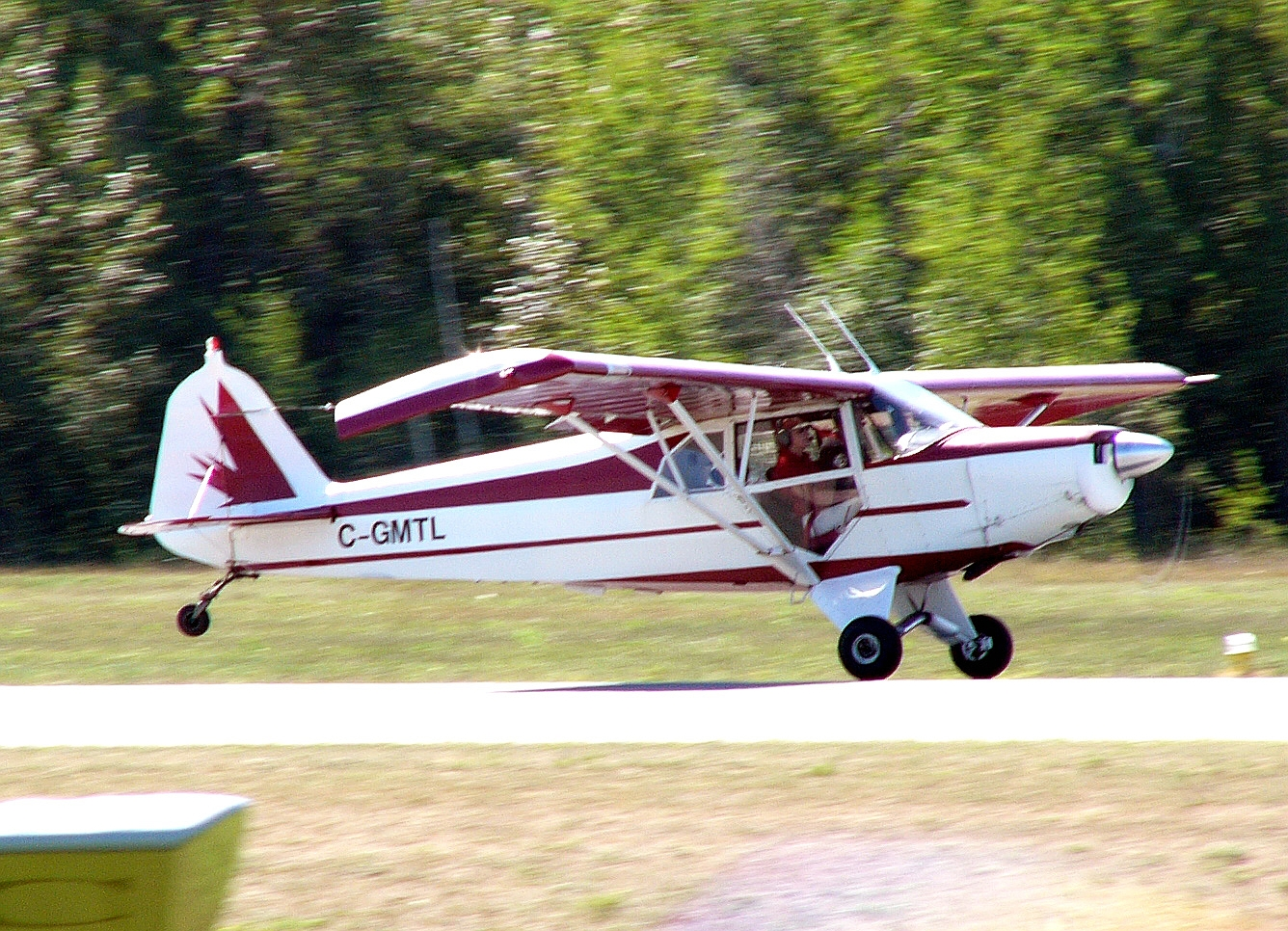 Wag-Aero Sportsman 2+2 at the Carp, Ontario, Canada fly-in